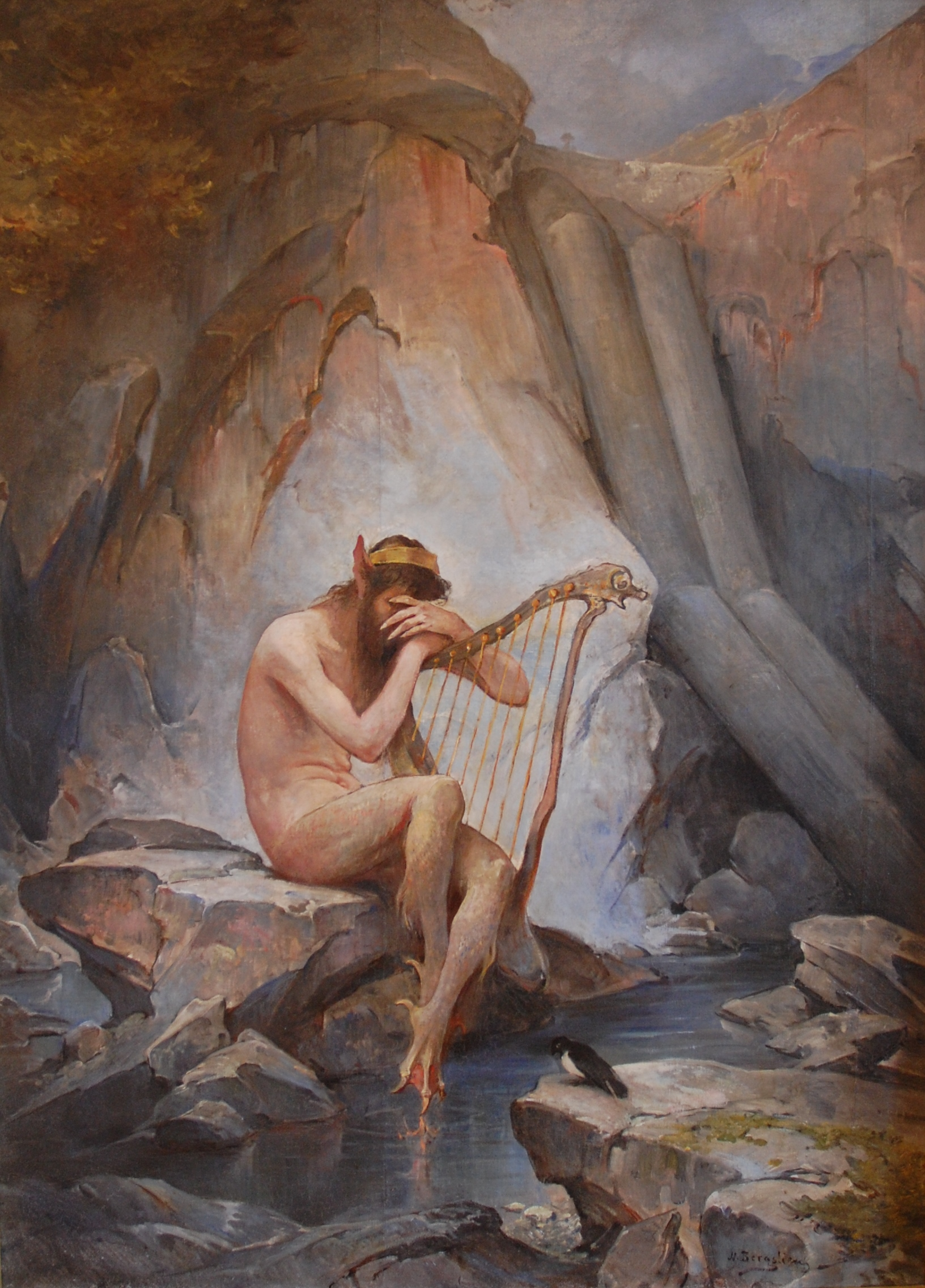 Oil painting by Nils Bergslien, "Fossegrimen", at Tyssedal Hotell, Odda, Norway